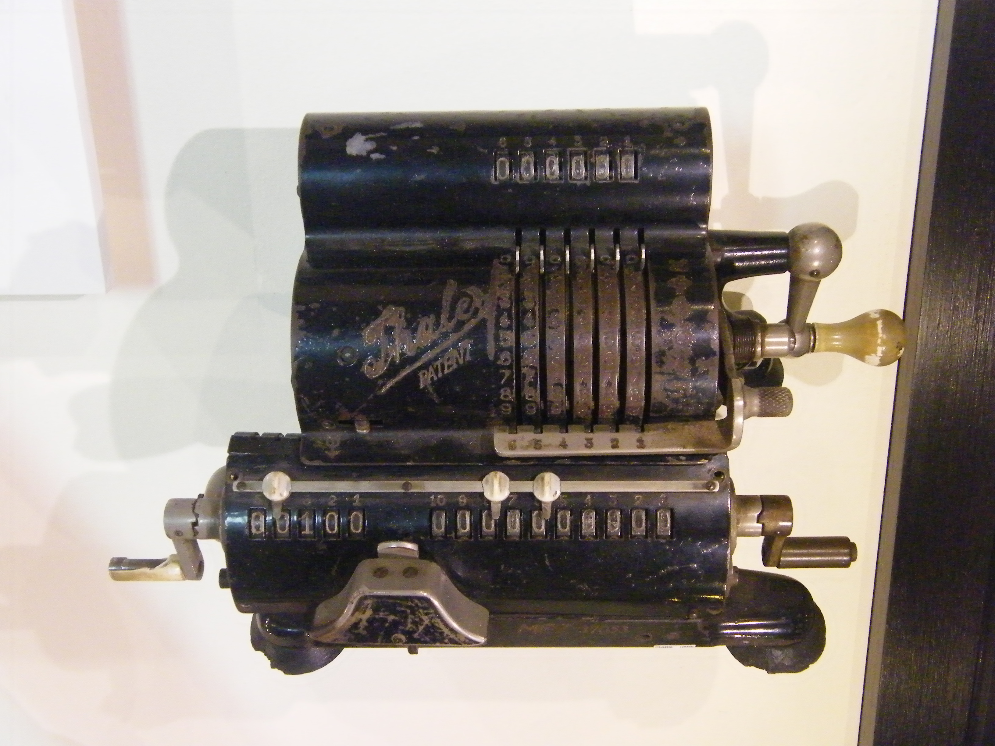 Thaleswerk, Germany 1928 This photo was taken as part of Britain Loves Wikipedia in February 2010 by Dave Russ.